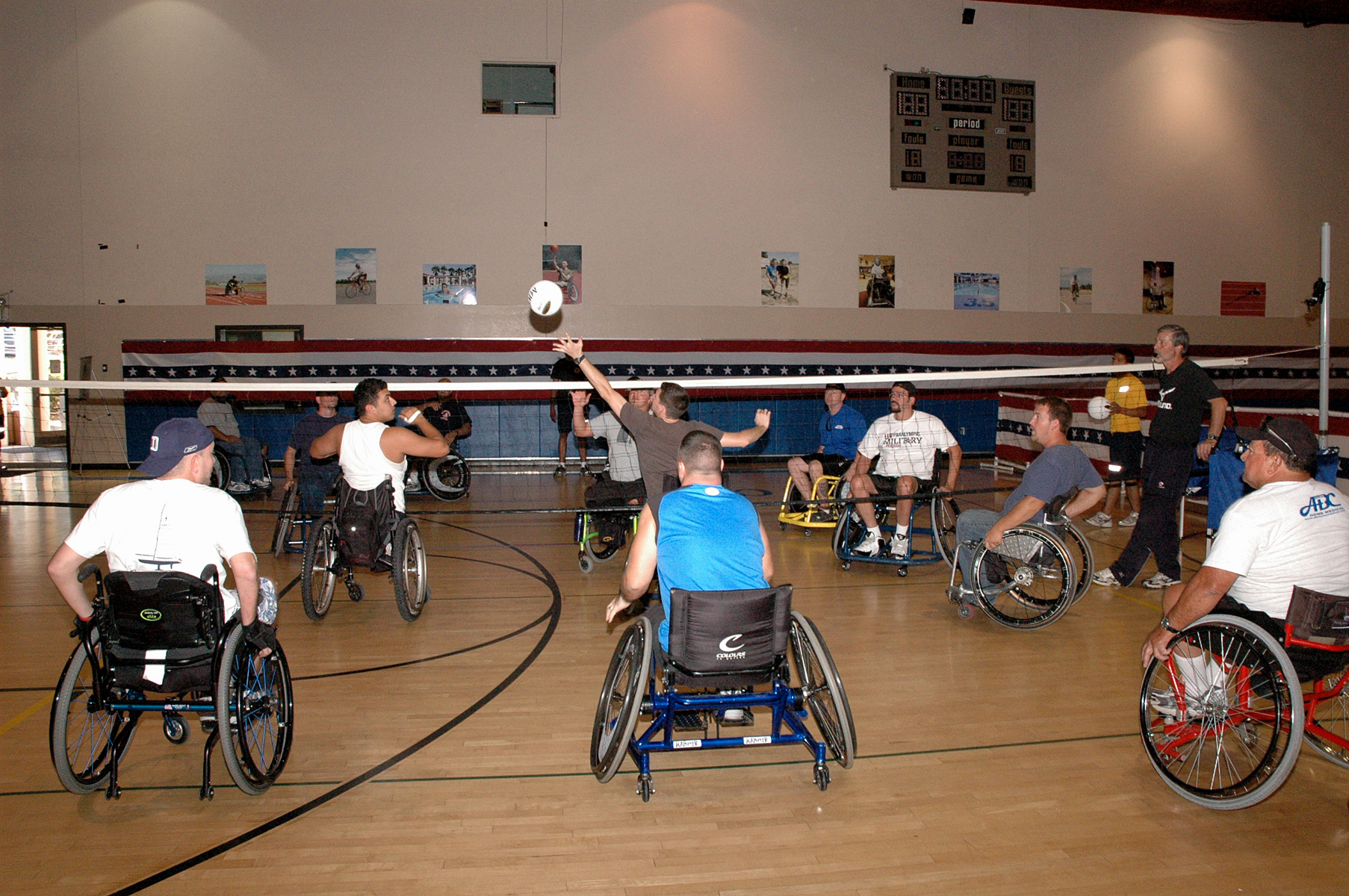 SAN DIEGO (Oct. 24, 2008) Wheelchair volleyball participants enjoy a game during a recent United States Olympic Committee Paralympic Military Sports Camp at Naval Medical Center San Diego. Scheduled for more than 80 wounded, ill and injured personnel, the week-long camp explored a wide variety of Olympic sports and their possibilities. (U.S. Navy photo by Mass Communication Specialist 2nd Class Greg Mitchell/Released)